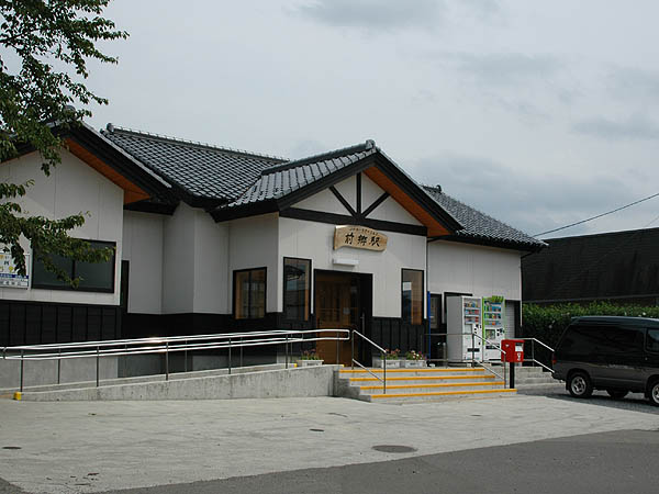 Maegō Station, on Yuri Kōgen Railway, Yurihonjō, Akita, Japan